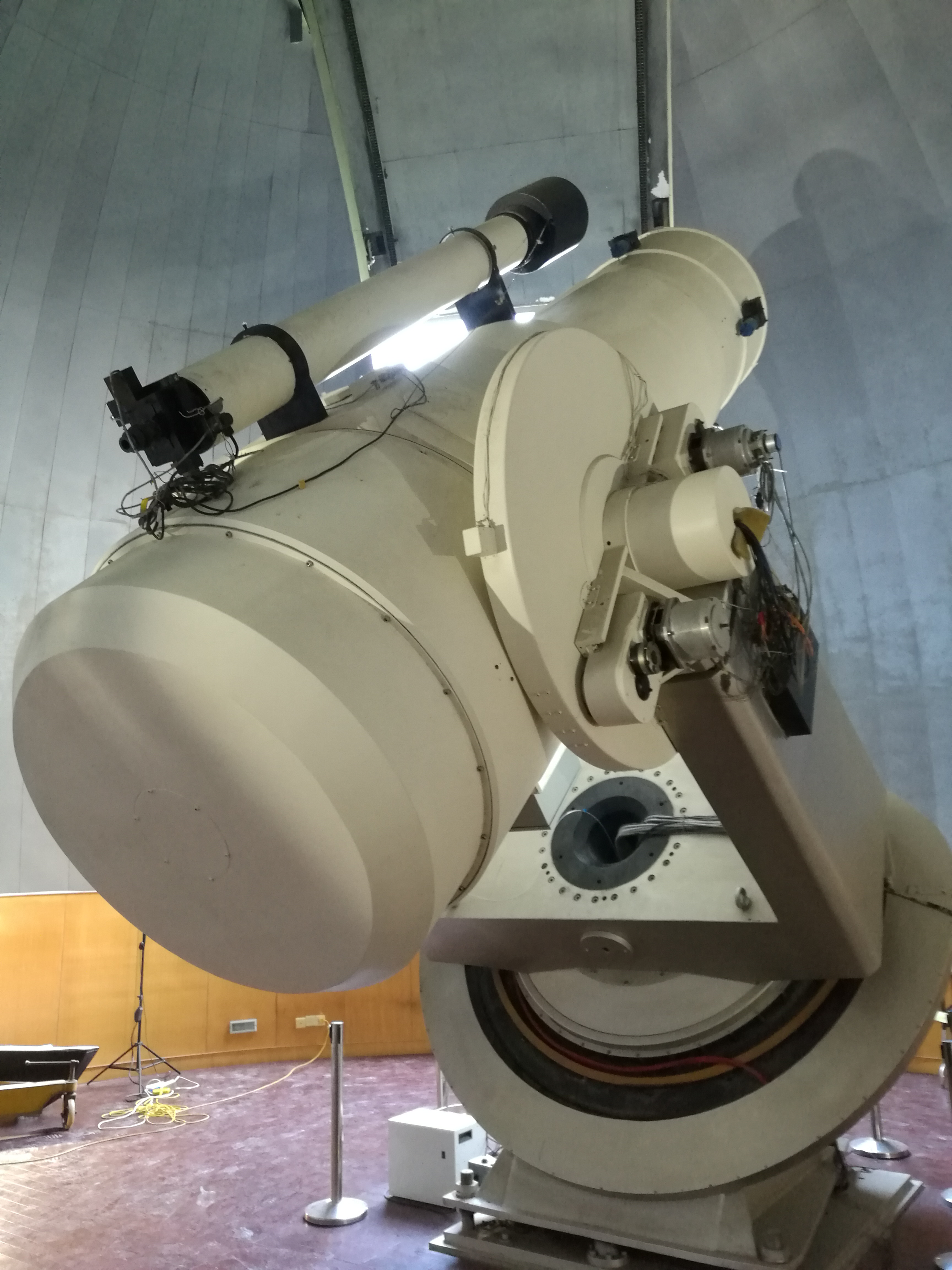 Purple Mountain Observatory - Xuyu Station